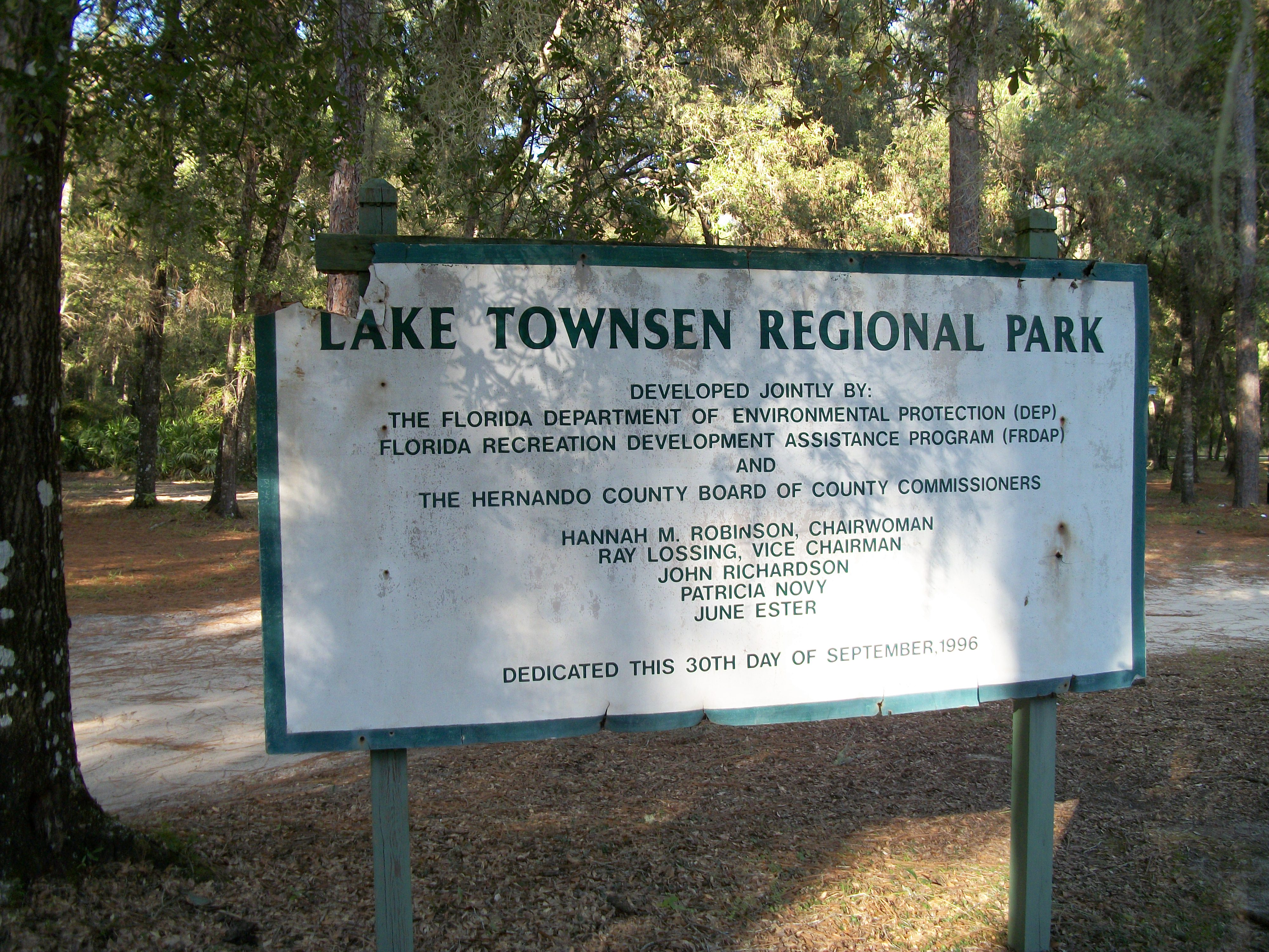 Damaged sign inside the Lake Townsen Regional Park on the northeast corner of Hernando County Road 439 and Hernando County Road 476 near Istachatta, Florida.